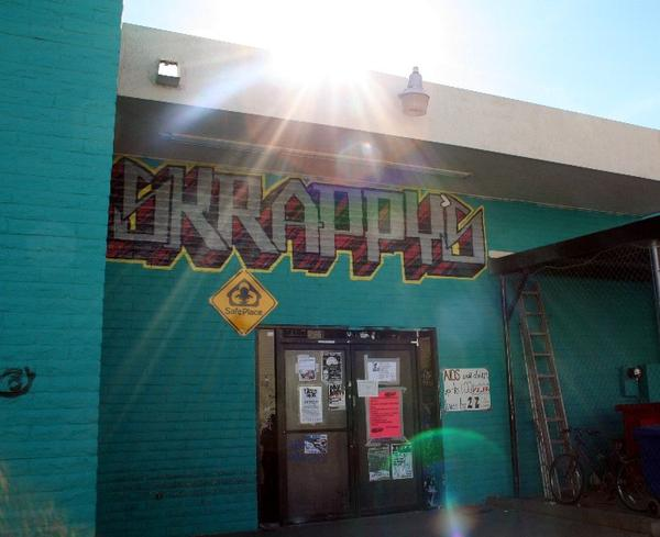 Entrance to Skrappys, in Tucson, Arizona. Heather Thomas 2006